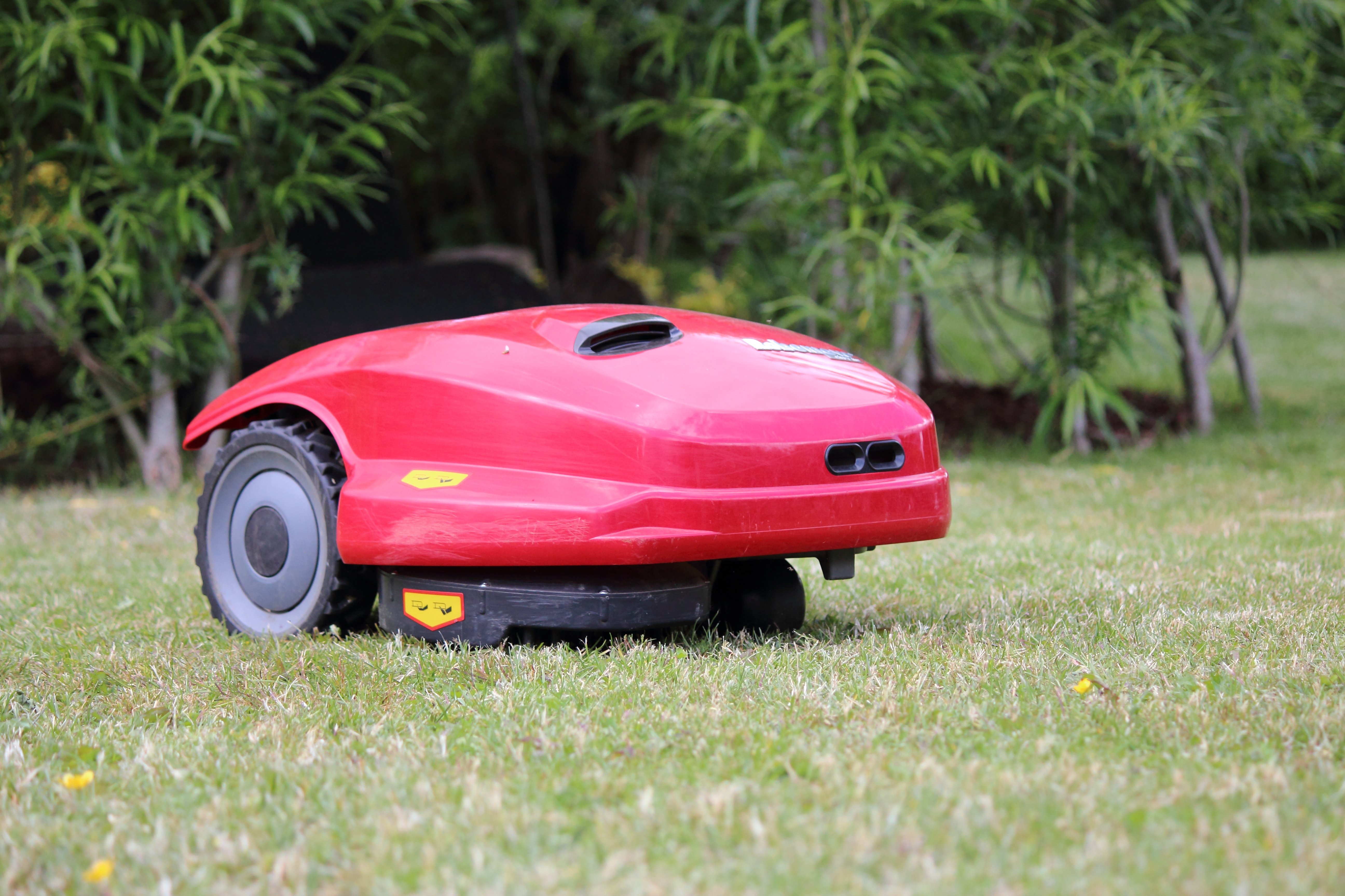 Robomow City 110 robotic lawn mower in action in a private garden in the vicinity of Viborg, Denmark